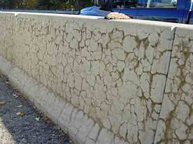 ASR cracks concrete step barrier